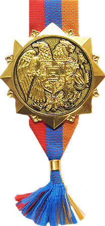 The Order of Motherland